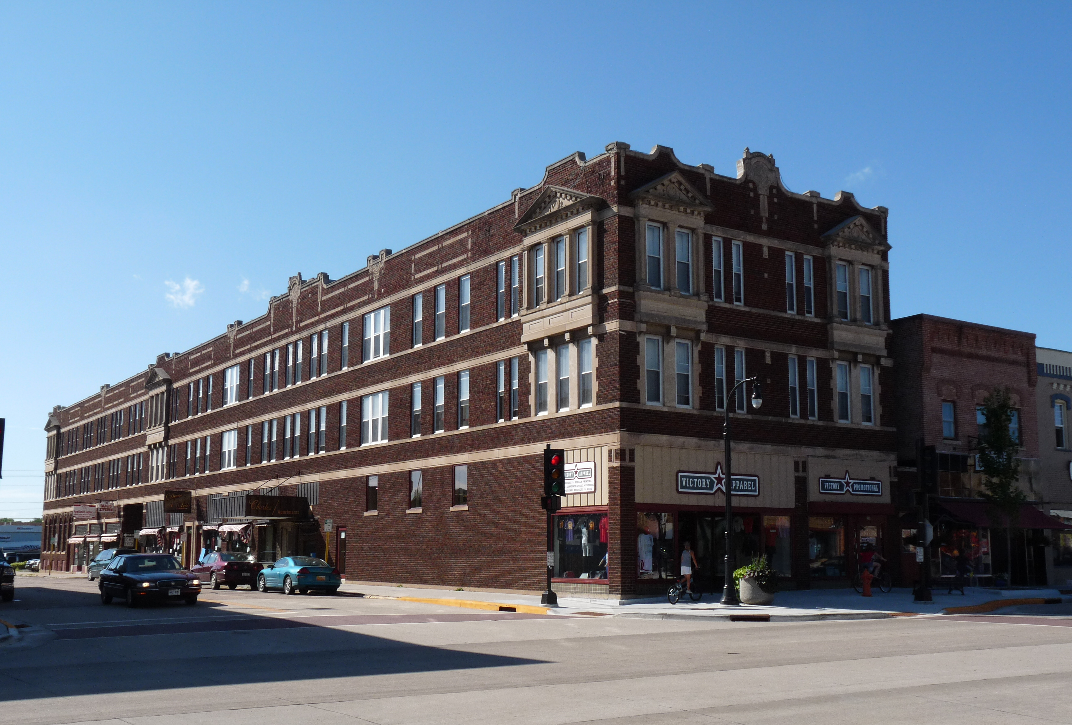 The Charles Hotel in Marshfield, Wisconsin was built in 1925 by Charles E. Blodgett. Today it is contributing property to Marshfield's Central Avenue Historic District on the NRHP.